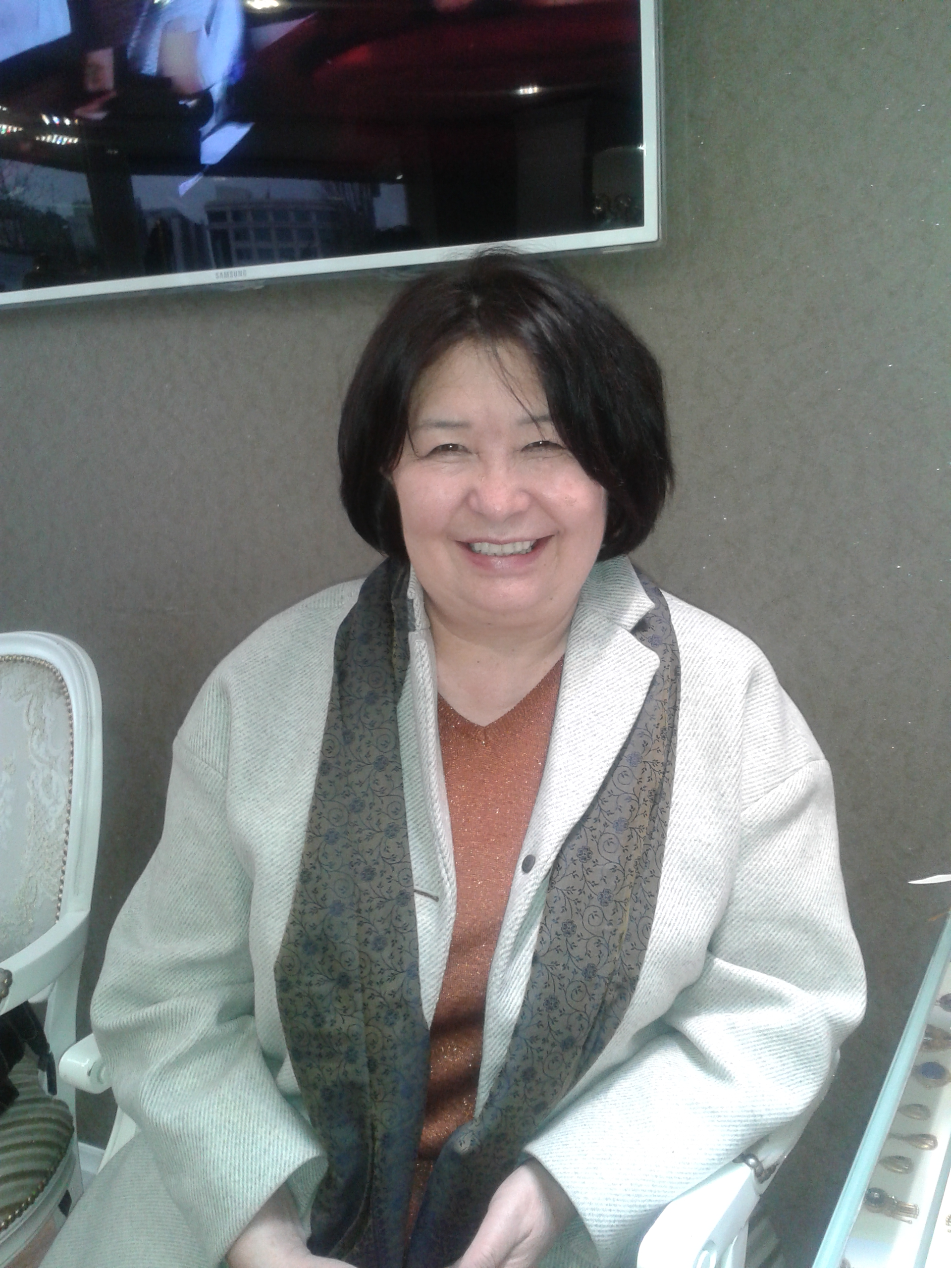 Professor Gulzura Jumakunova, the Kyrgyz Turkologist, Literature researcher and translator, in Kizilay, Ankara, Turkey. 24.01.2015. Кыргызча: Кыргыз профессор Гүлзура Жумакунова. Анкара шаары. 24.1.2015.